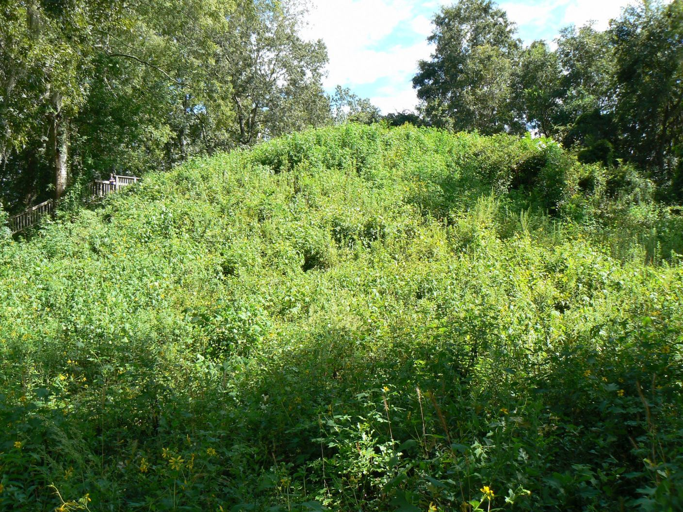 Mound 2 at the Lake Jackson Mounds State Park, Tallahassee, Florida, USA.